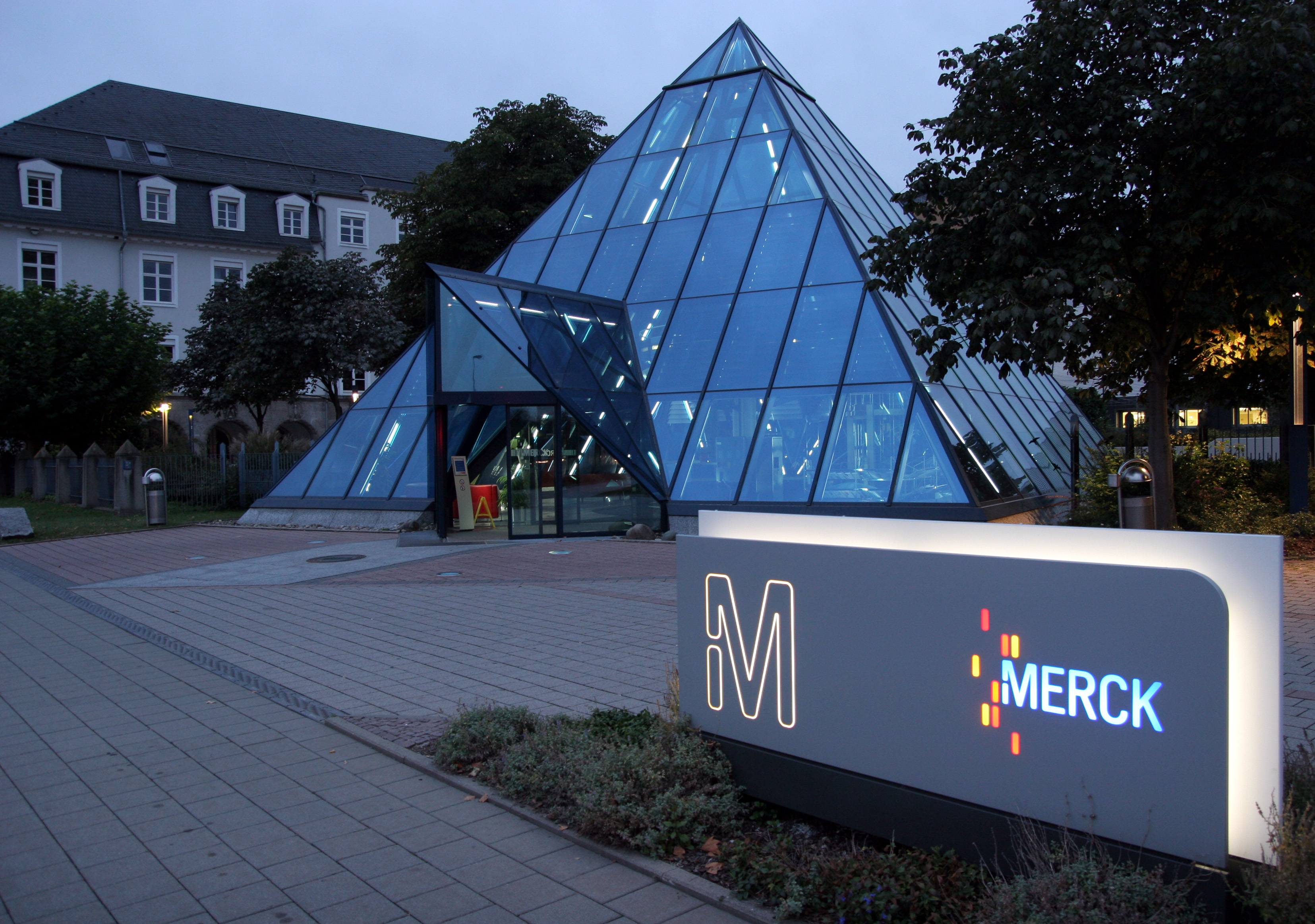 Visitors entrance at Merck KGaA in Darmstadt (Germany).